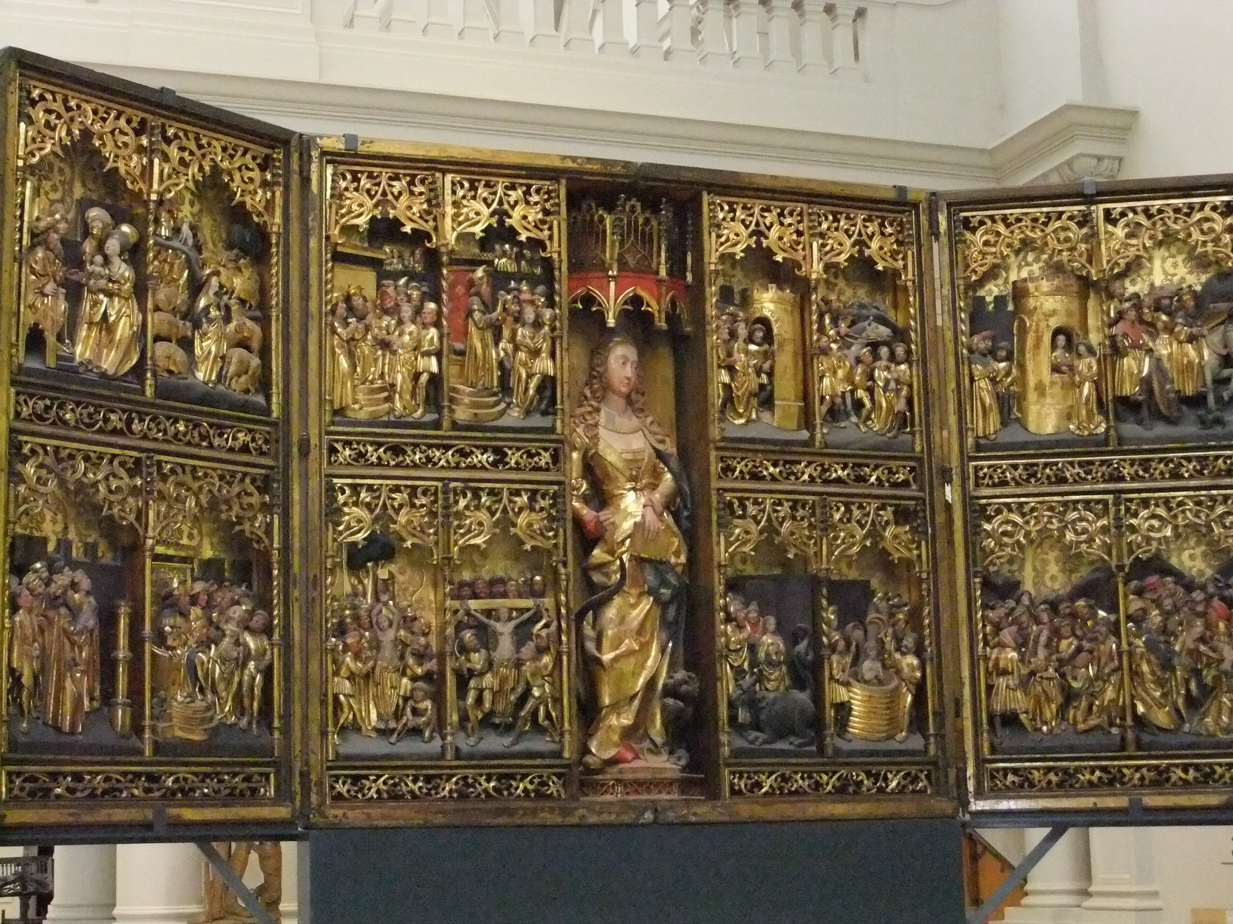 The St Margaret Altarpiece; St. Margaret and scenes from her legend. Northern Germany (possibly Lüneburg or Hamburg), c. 1520; probably made for the Johanniskirche in Lüneburg Victoria and Albert Museum, London; Museum number: 5894-1859, Link